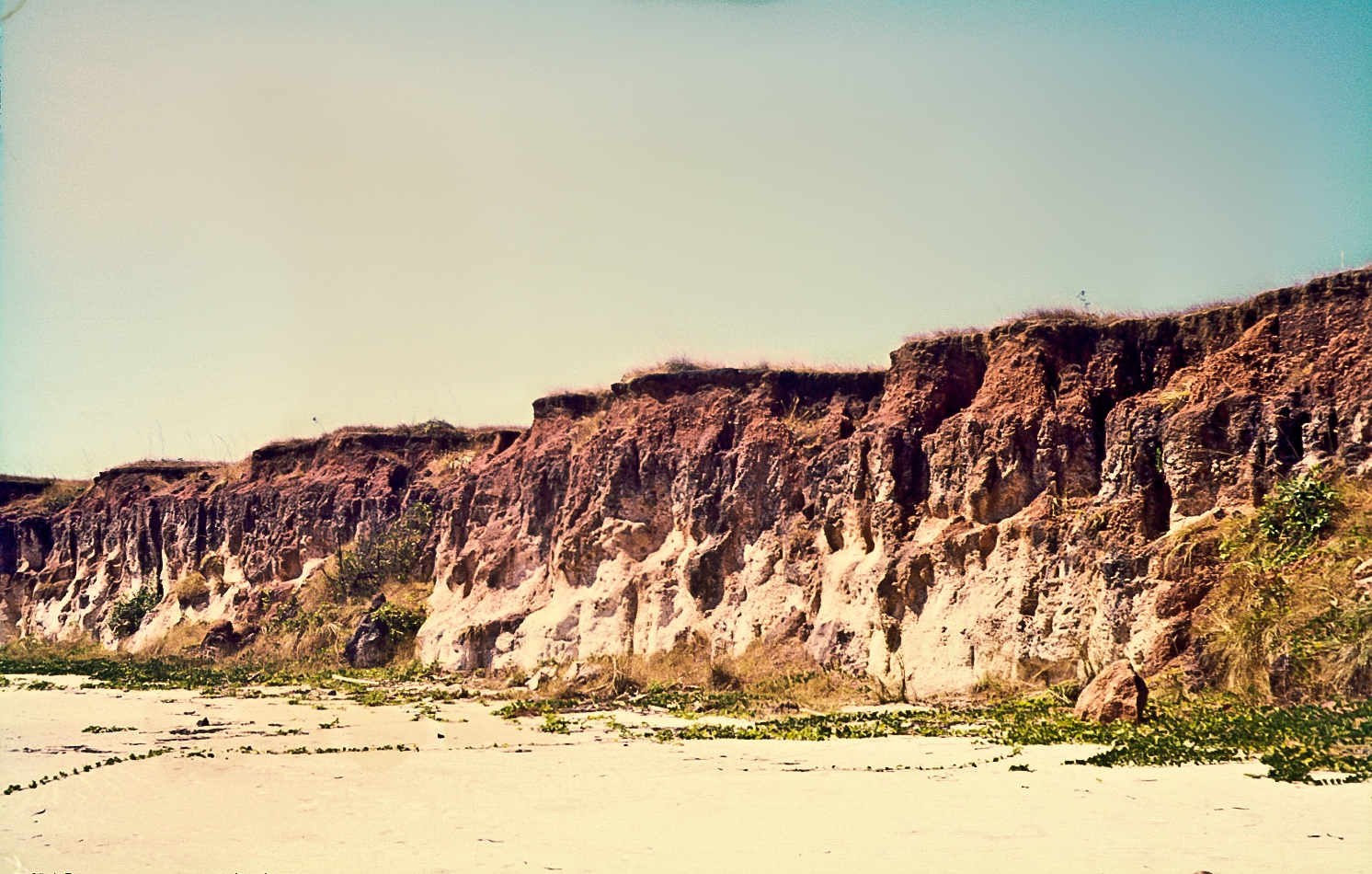 Bauxite section on kaolinitic sandstone (white) at Pera Head (detail of photo C 006.jpg). Bauxite deposit Weipa, Australia.